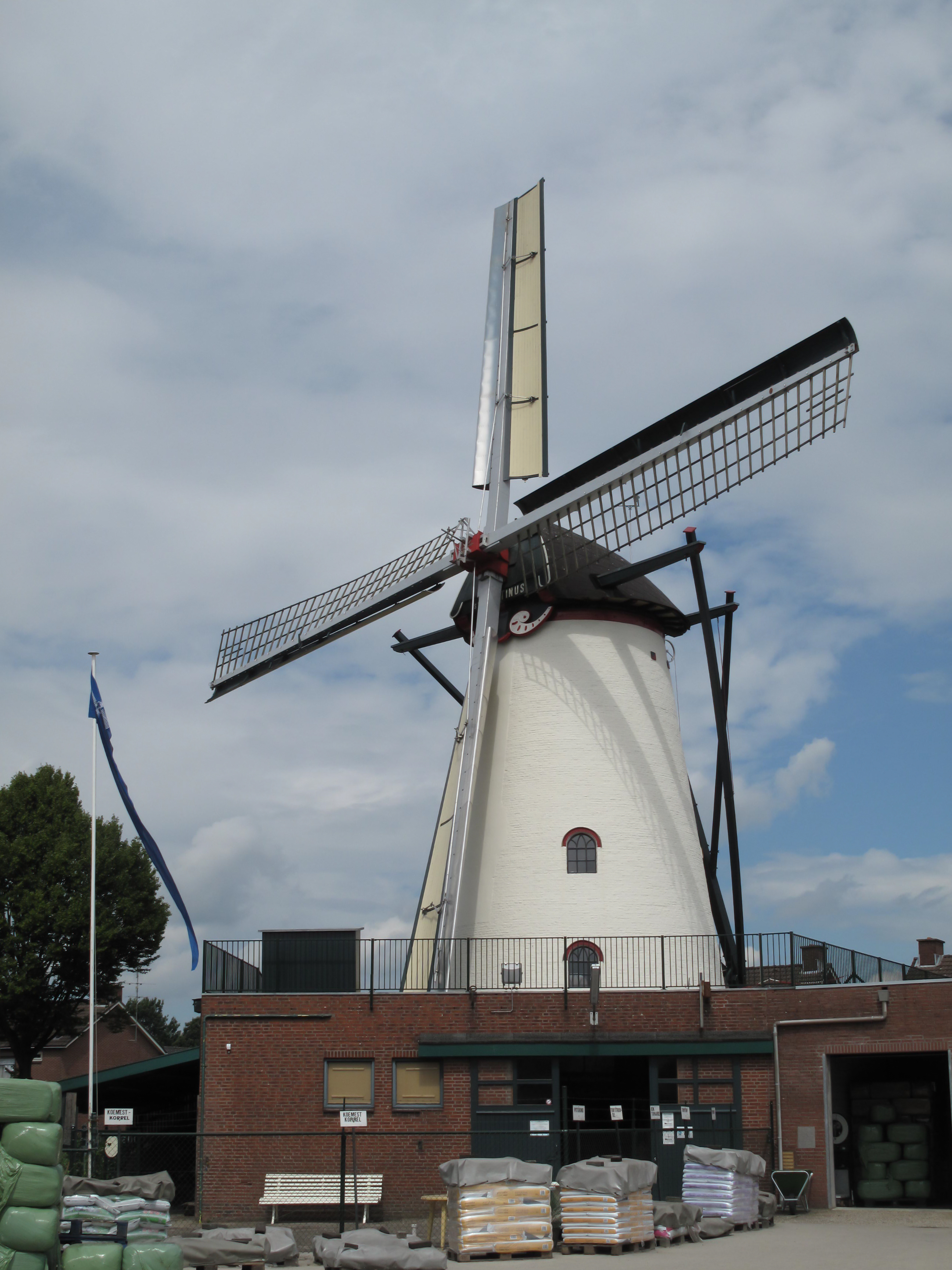 Didam, windmill: molen Sint Martinus